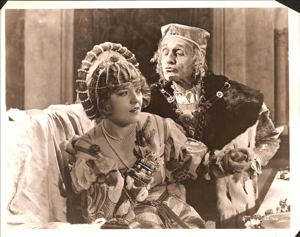 When Knighthood Was in Flower is a 1922 silent historical film based. This is a publicity shot with Marion Davies (Mary Tudor, Queen of France) and Arthur Forrest (1859–1933; Cardinal Thomas Wolsey).